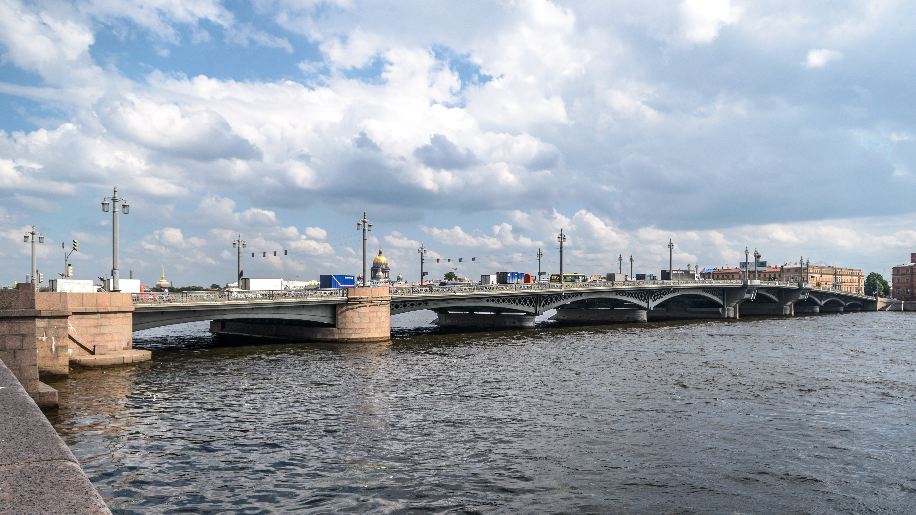 Blagoveschensky Bridge in Saint Petersburg, as seen from Lieutenant Schmidt Embankment